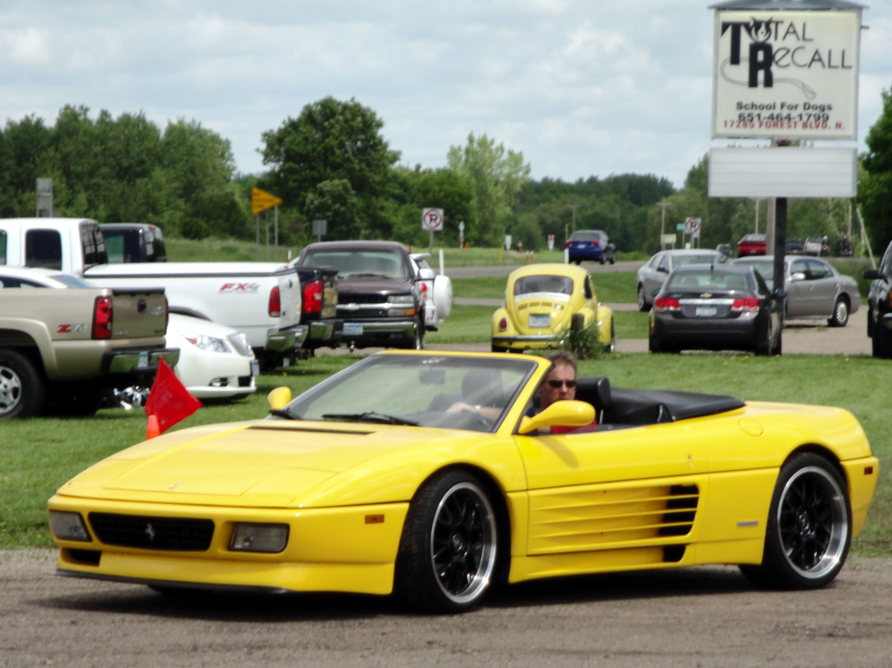 2012 Memorial Day Car Show Hosted by the North Star Chapter of the Studebaker Drivers Club Thousands of car pictures at the link below